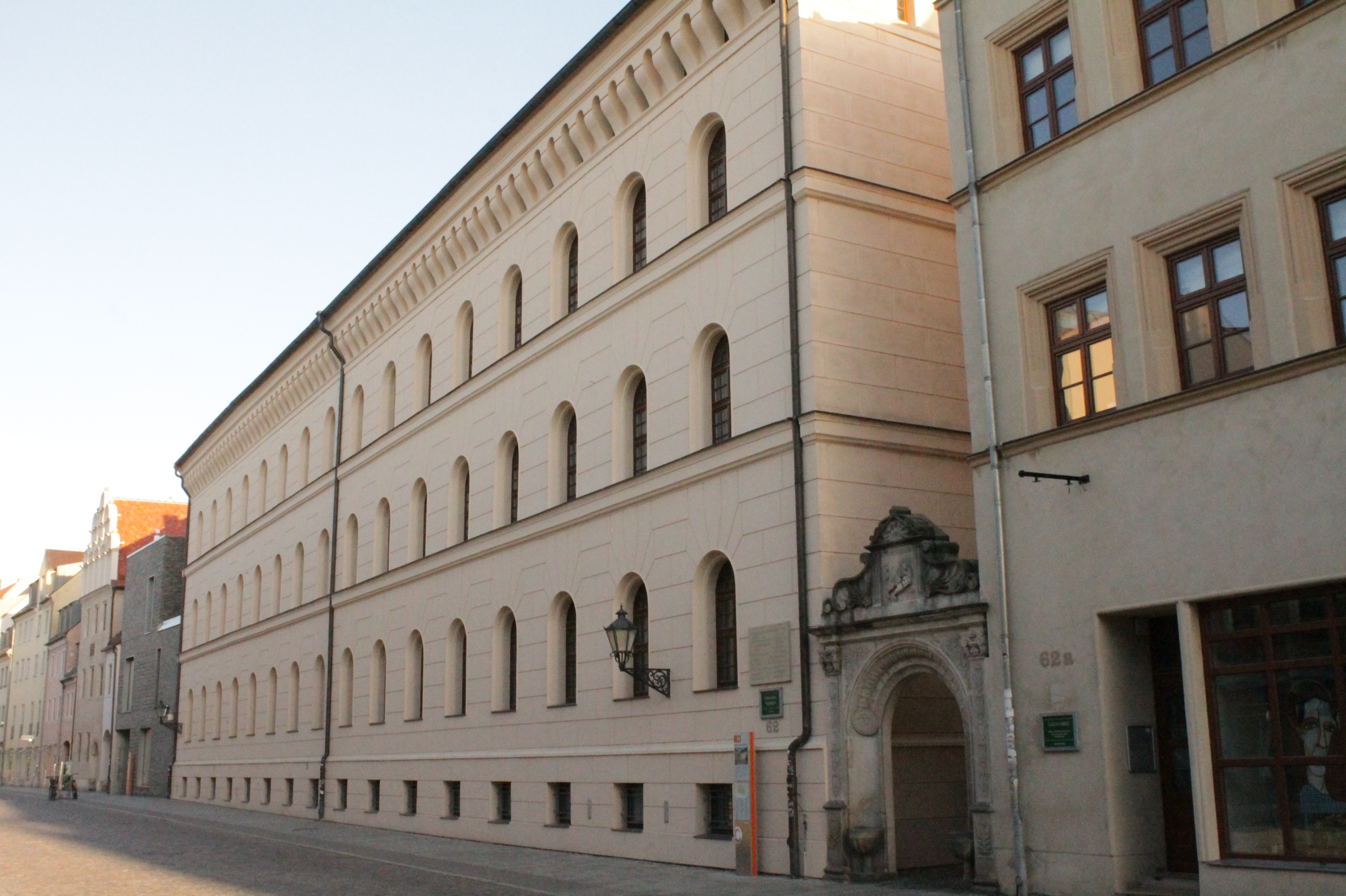 Original buildings of Wittenberg University, Collegianstrasse, Wittenberg